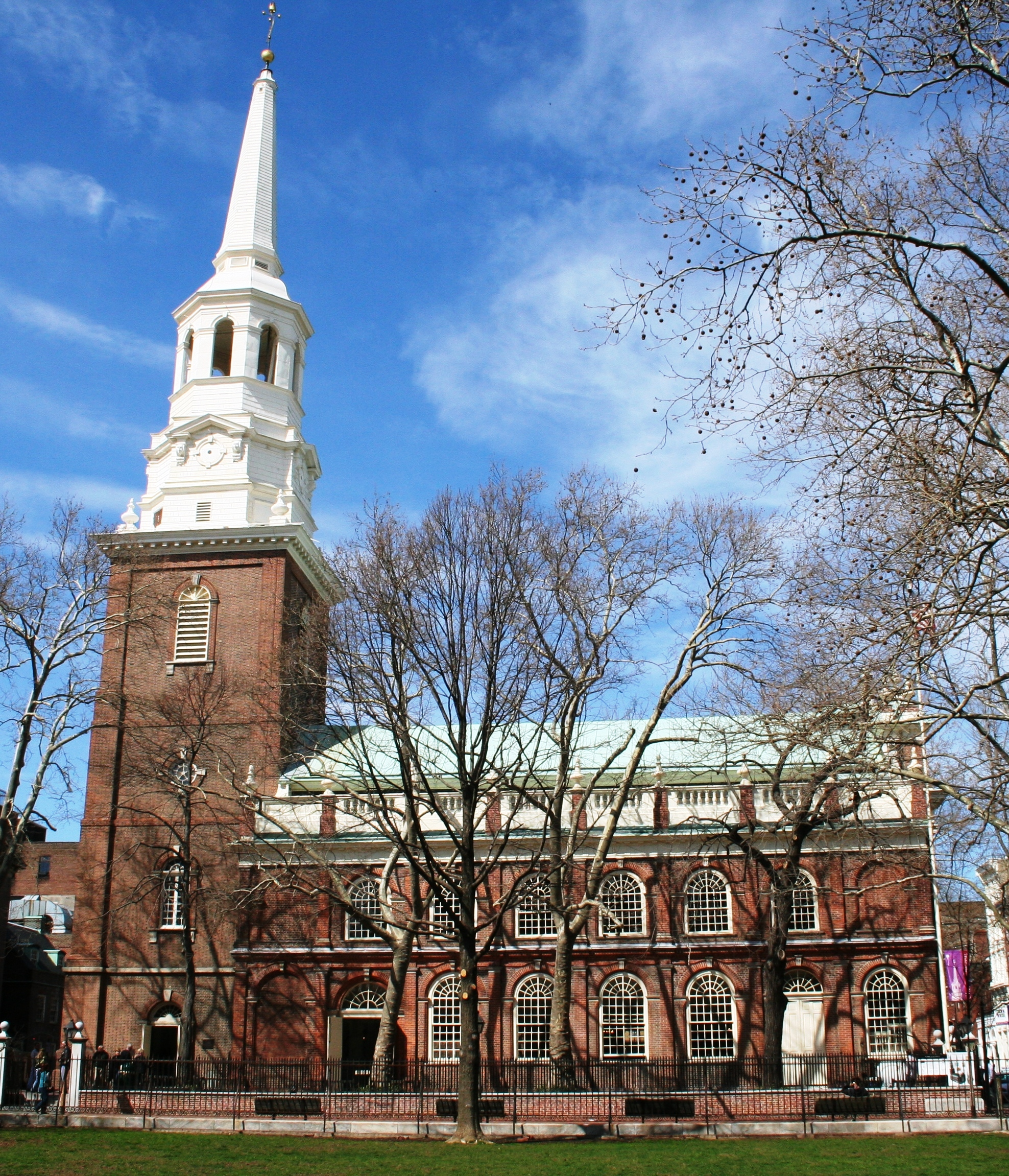 Christ Church, Philadelphia - view from Market St.